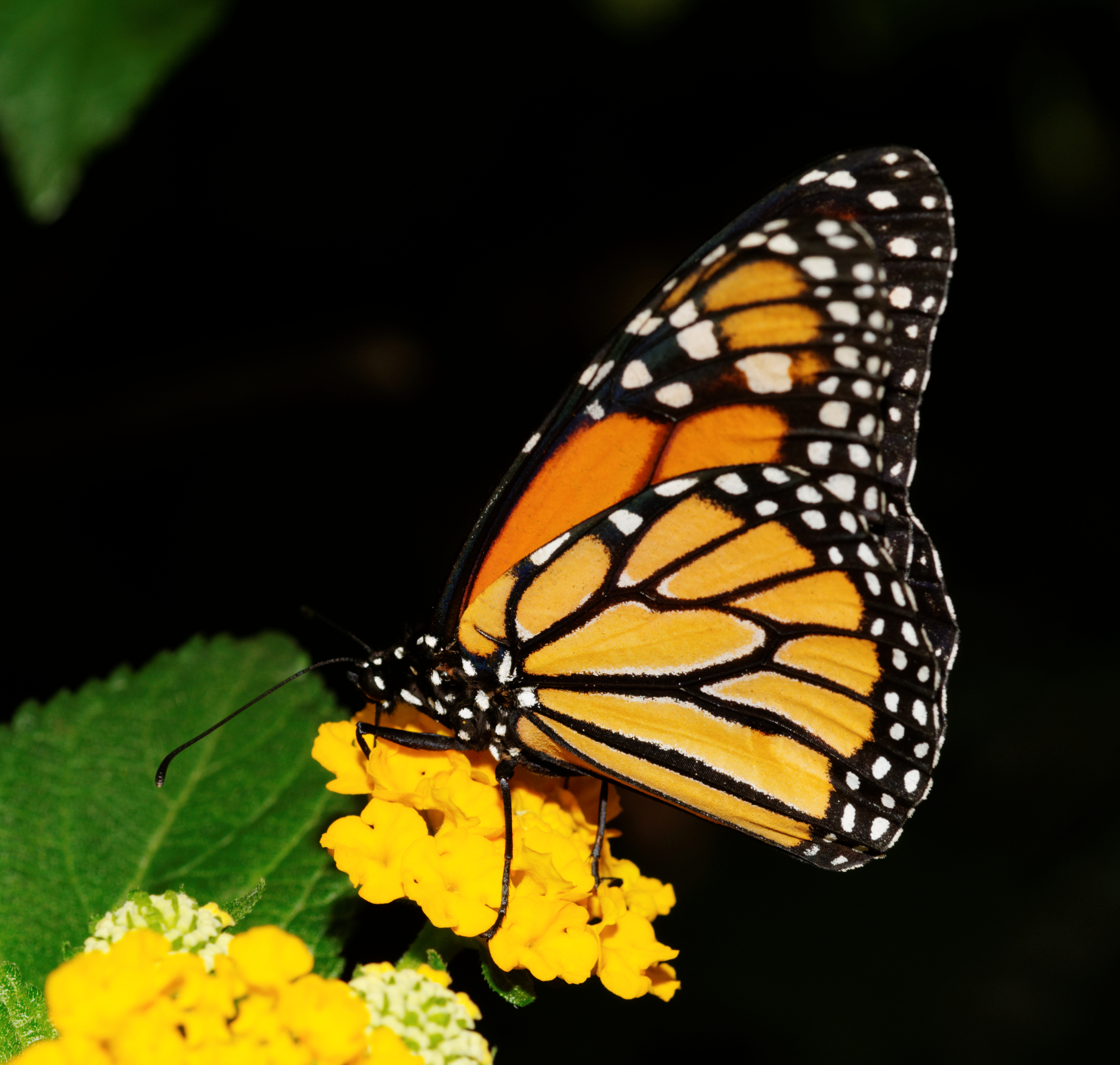 This photograph was taken with a Nikon D300 Monarque (Danaus plexippus), vu au Jardin des papillons, à Hunawihr (France).